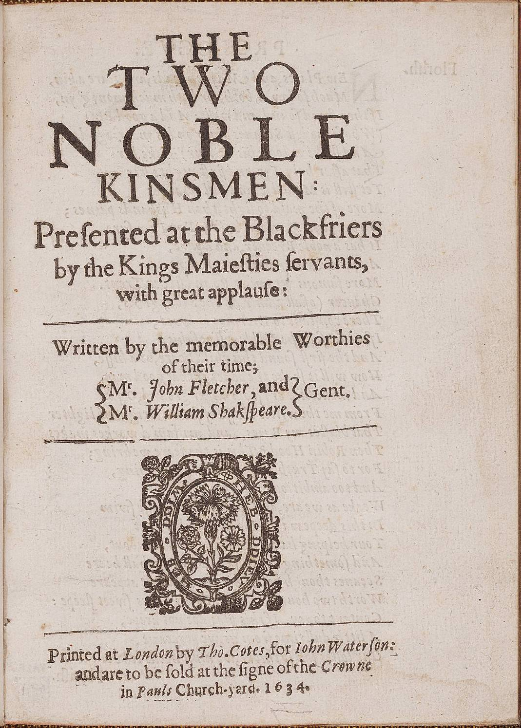 Title page with woodcut of "The Two Noble Kinsmen," by John Fletcher and William Shakespeare, 1634. Image courtesy of the Elizabethan Club and Beinecke Rare Book & Manuscript Library, Yale University.[1]